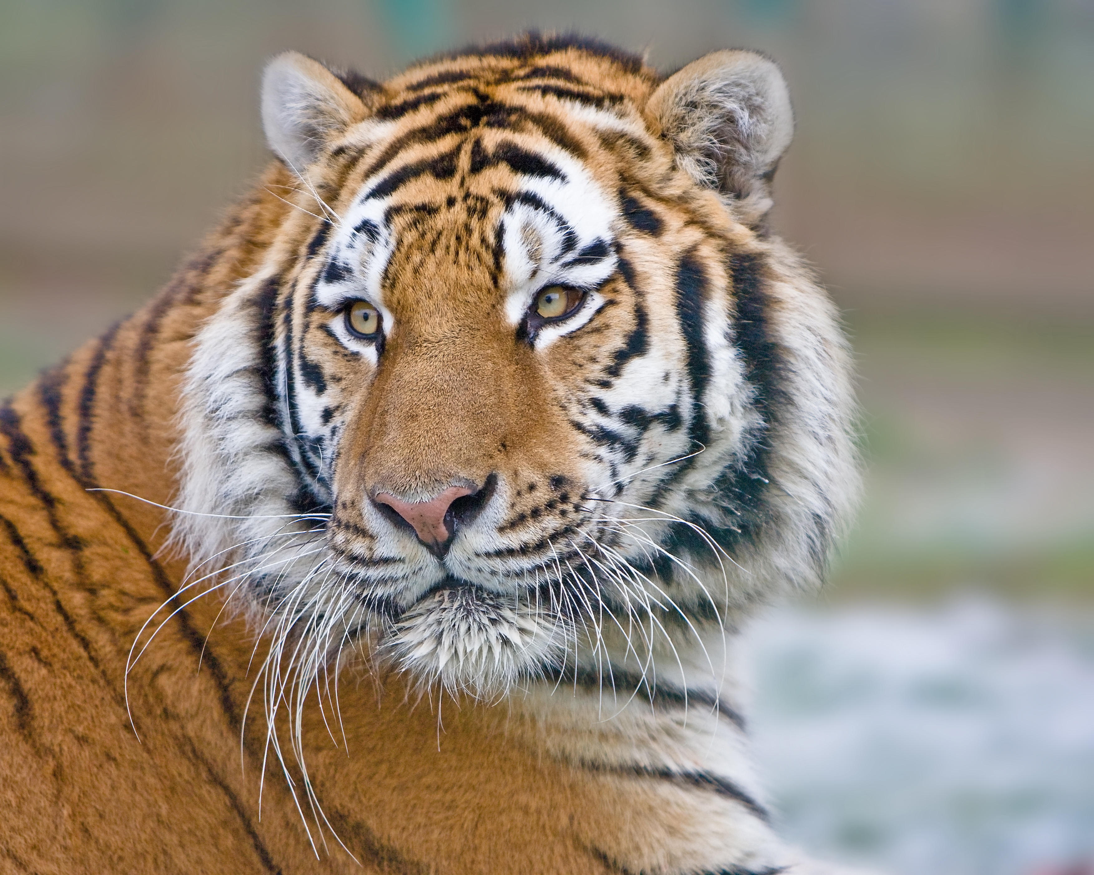 Portrait of a Tiger. Makari from the Wildlife Heritage Foundation.